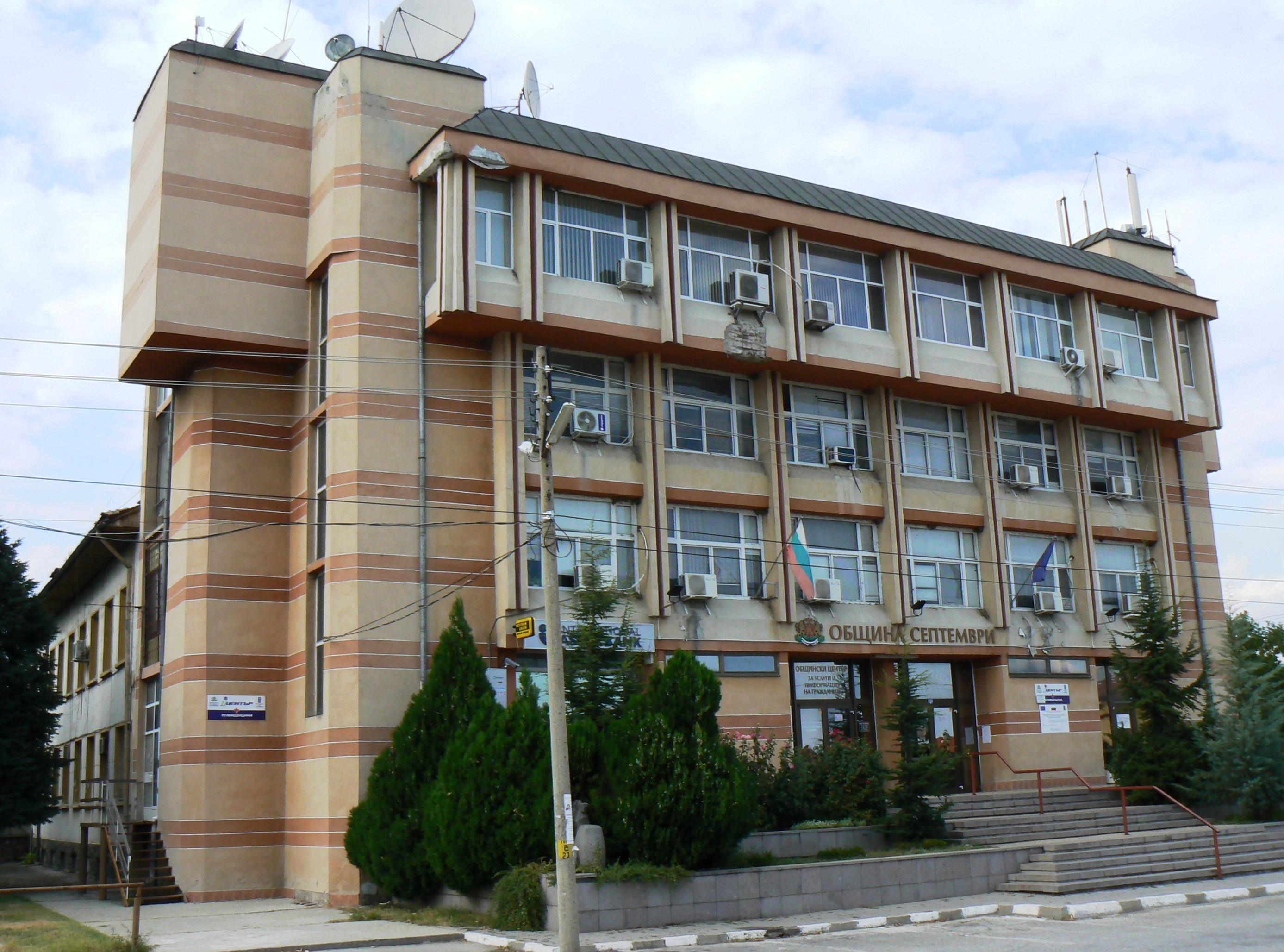 The building of Septemvri Municipality, Bulgaria